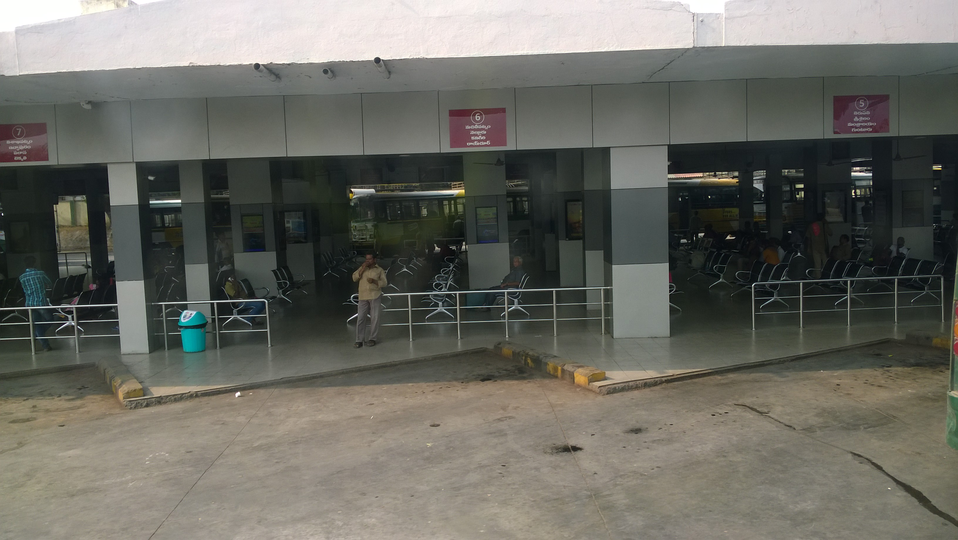 rajahmundry bus station interior